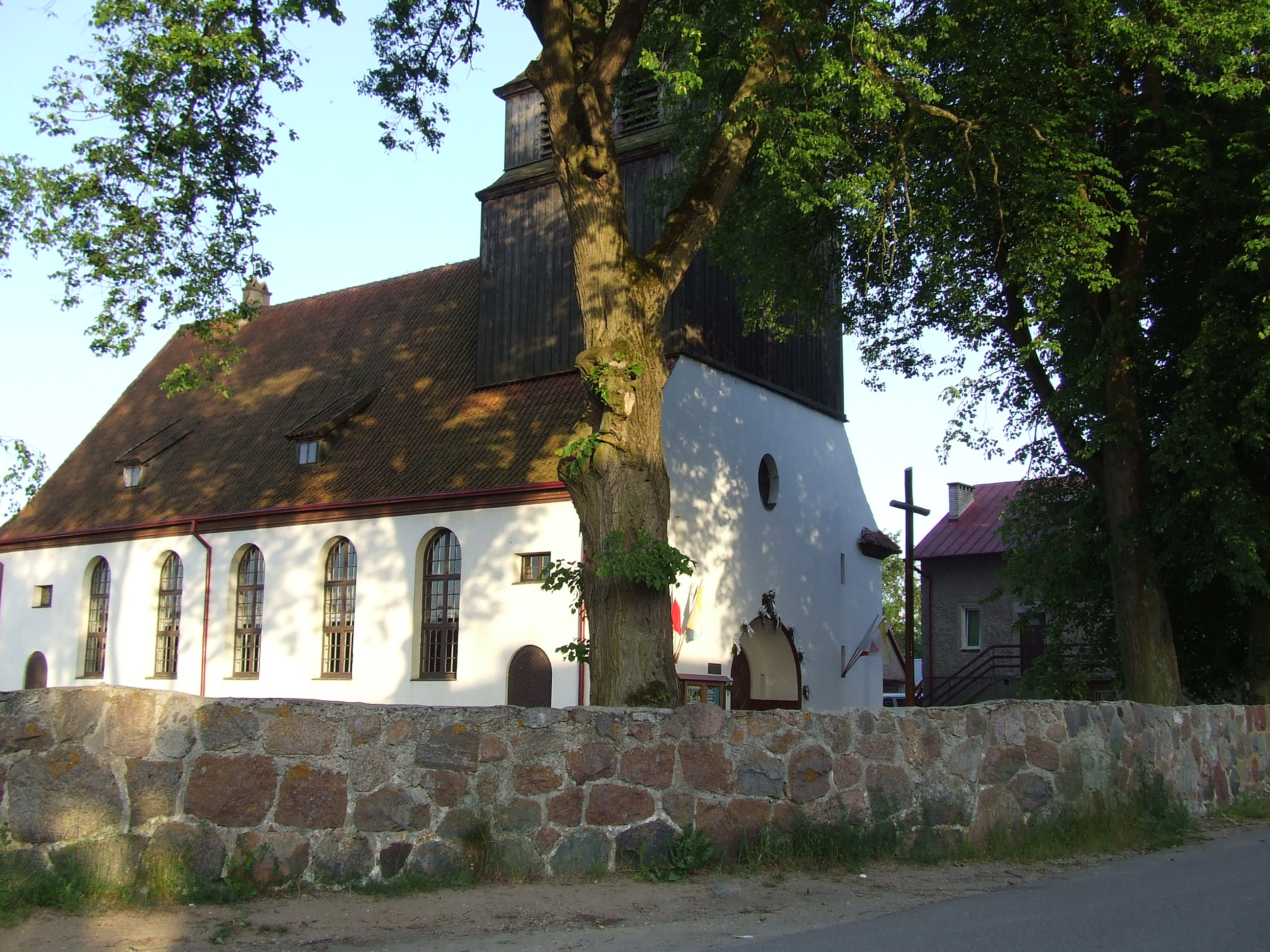 Okartowo